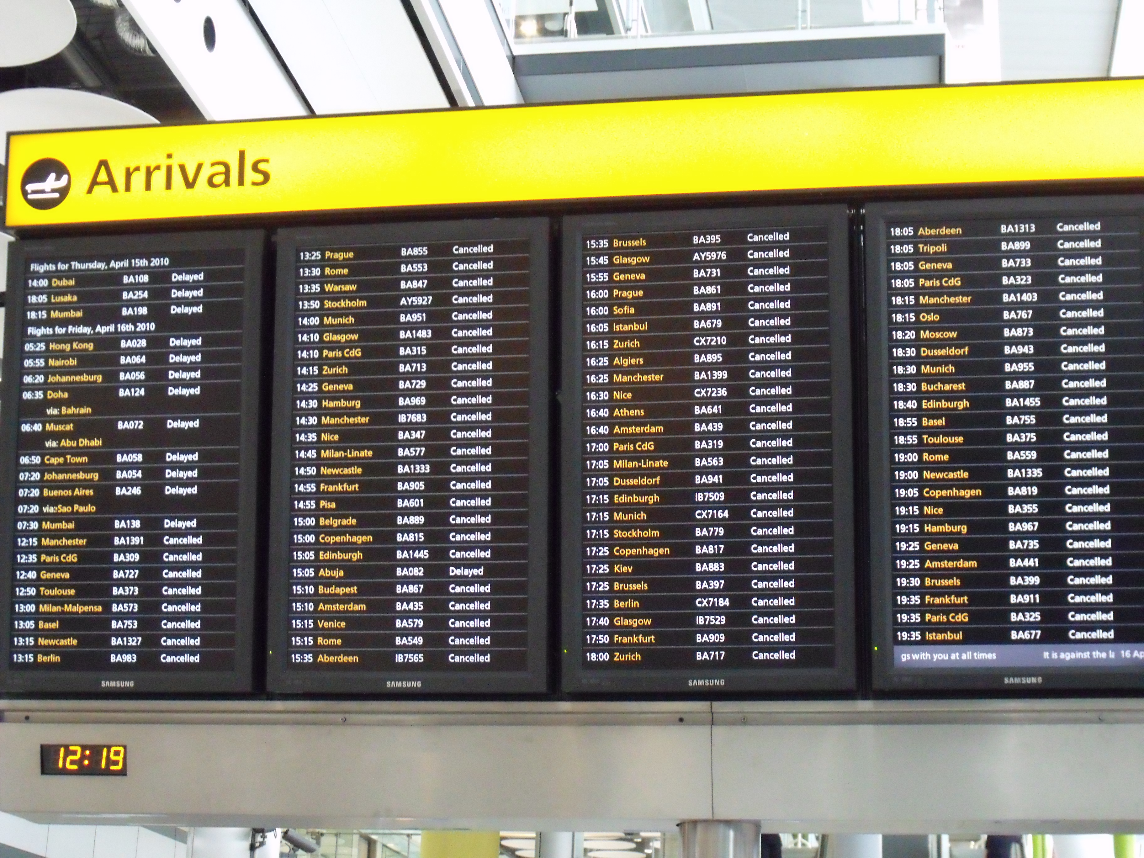 Cancelled—an arrivals board in Heathrow's Terminal 5 on April 16, 2010, the second day on which UK airspace was closed by volcanic ash from Iceland